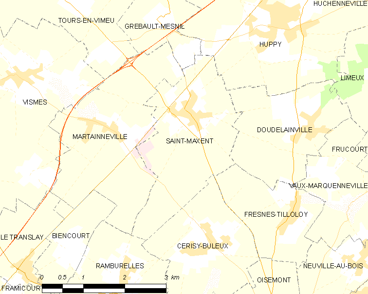 Map of French municipality Saint-Maxent